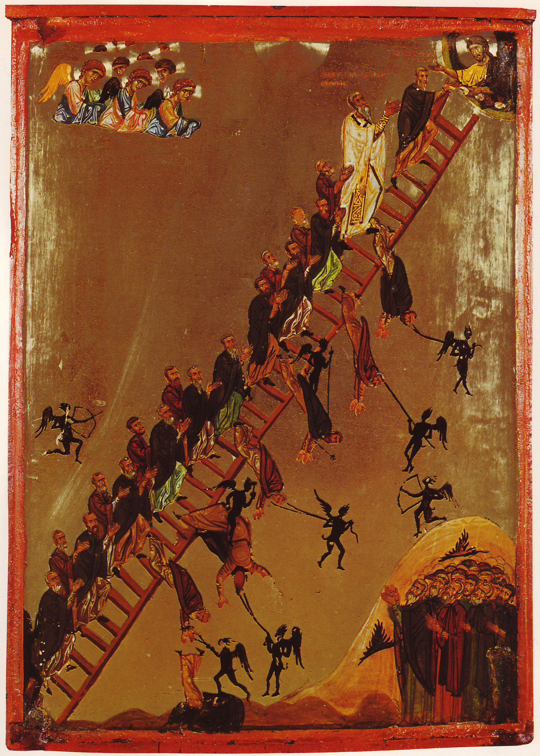 Monks on the Ladder of Divine Ascent: thirty rungs symbolize John Climacus' thirty virtues. Climacus himself is depicted on the uppermost rung; the bishop who is second is labelled "Antonios". Panel, second half of 12th century. 41 x 29.3 cm